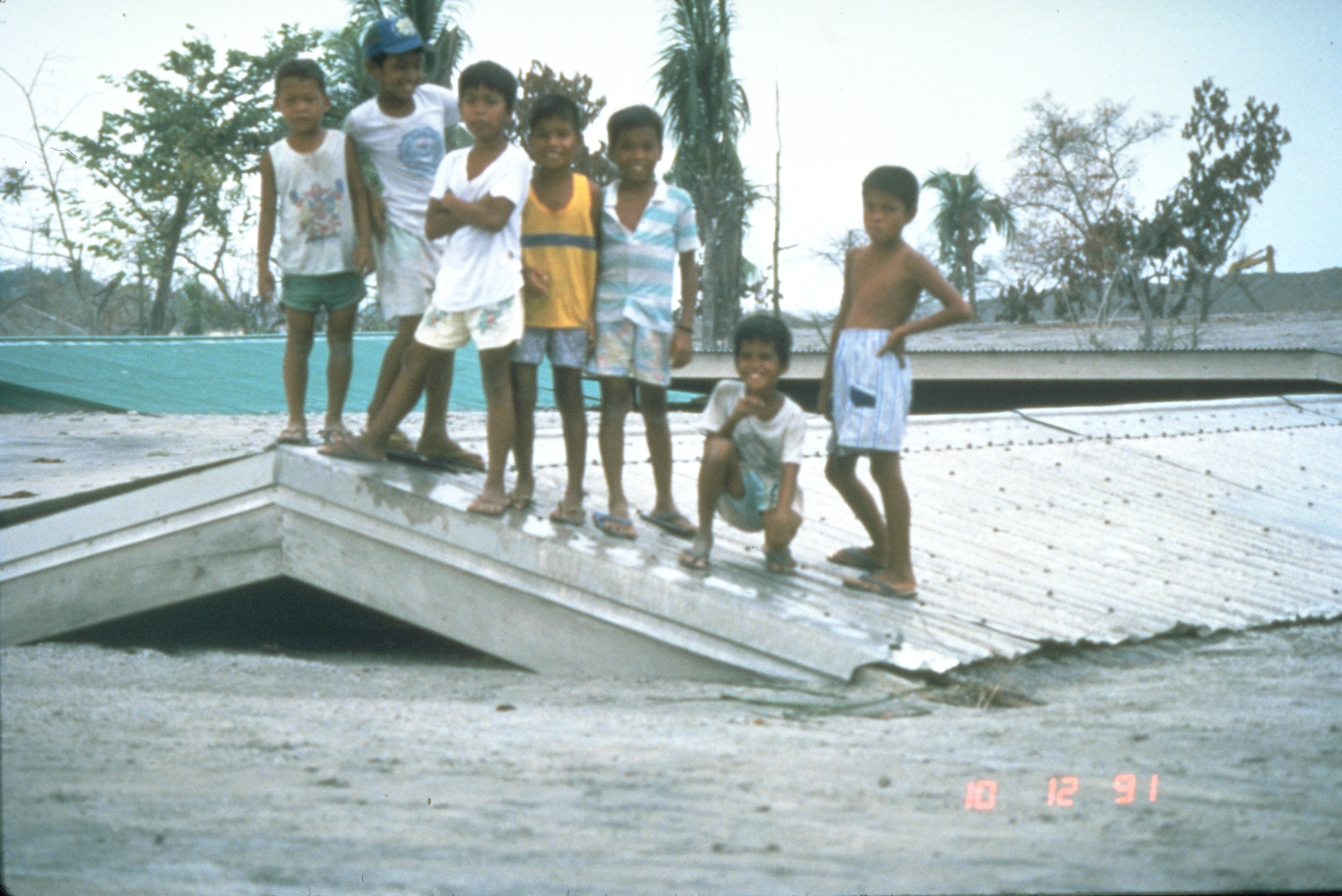 Children on roof of school in Bamban, Tarlac. Schoolhouse was buried by lahars of Sacobia and Marimla Rivers, tributaries of the Bamban River.U.S. Geological Survey Photograph taken on October 12, 1991, by Chris Newhall.